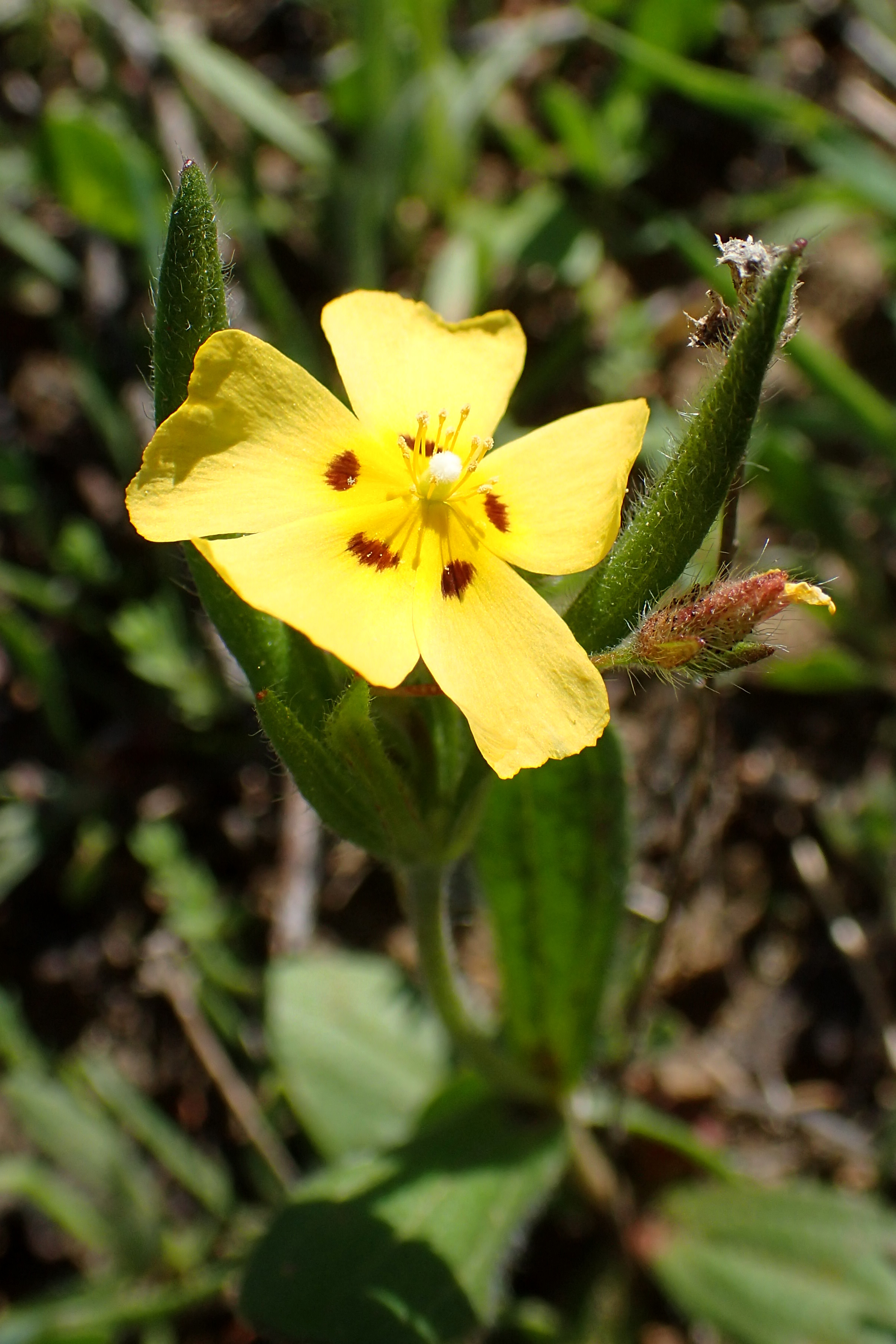 Tuberaria guttata on Akamas Peninsula, Cyprus